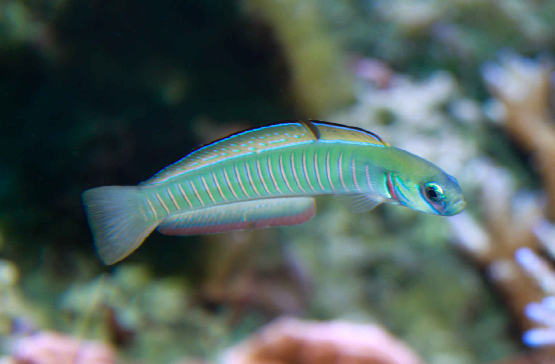 Zebra dart fish Ptereleotris zebra